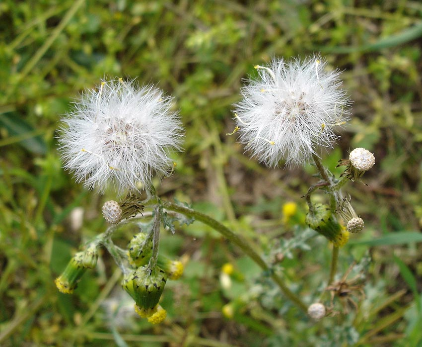 Senecio vulgaris achenes and pericarps.